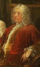 Viscount Castlemain(1680-1750). Detail from The Assembly at Wanstead, by William Hogarth, painted c.1728-31. Philadelphia Museum of Art, M1928-1-13.